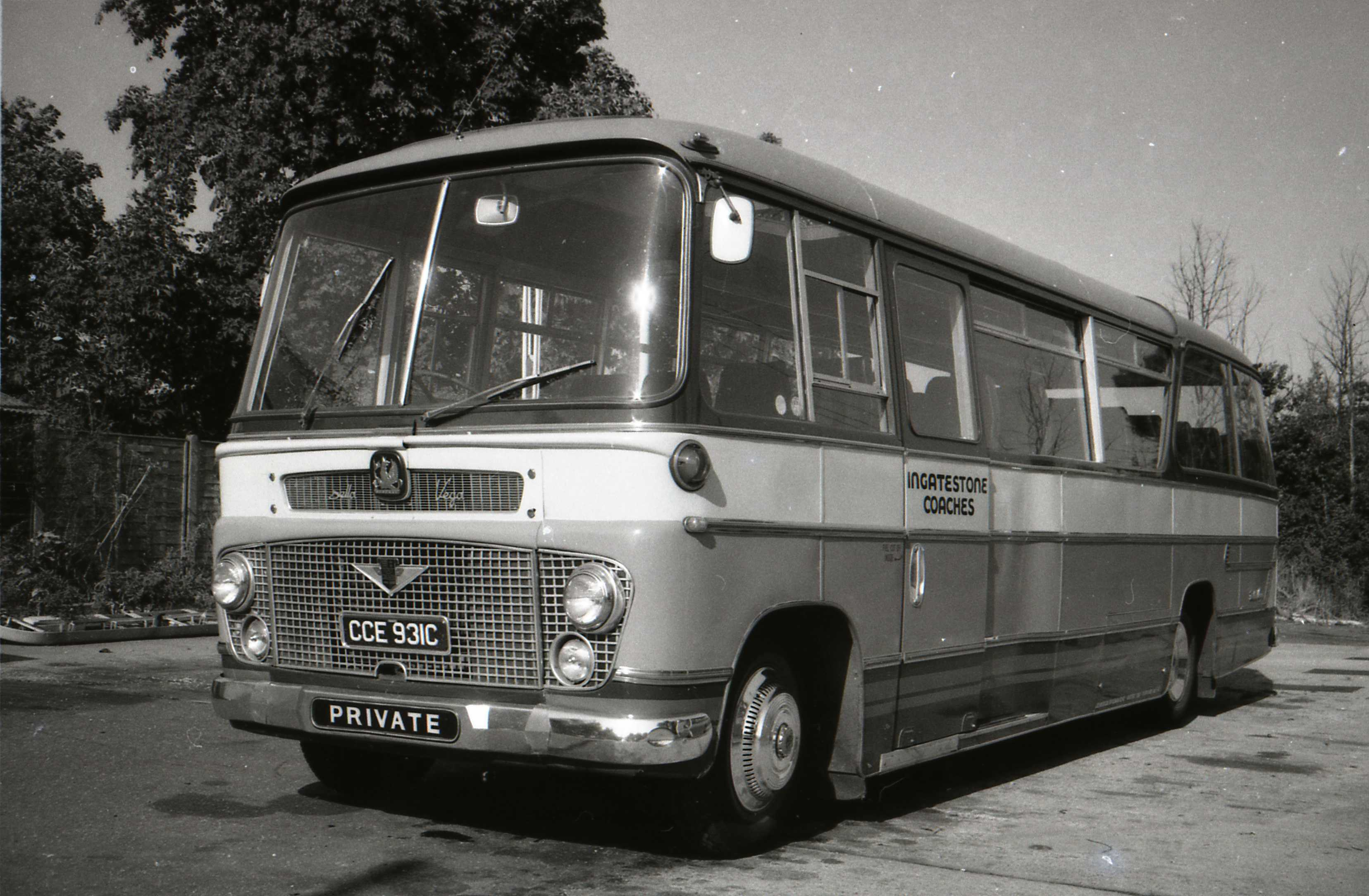 Who was the original owner? Progressive? Operated here by KD Morgan of Ingatestone. It had served previously in Essex with M & M of Braintree (who also operated a sweet shop) and Reinhold Laubach of Black Notley who traded as T&R. Before that it was owned by HC CHambers & Son of Bures This and VRX may have been Laubach's last vehicles. Ingatestone Coaches ceased trading after more than 30 years in 2007.